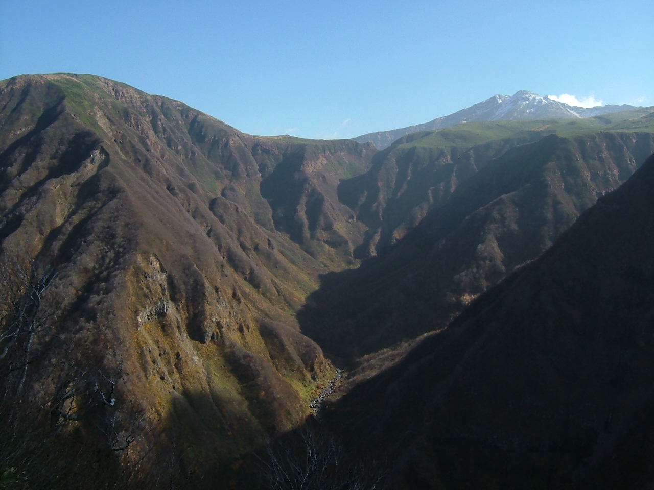 Mount Chokai seem Northwest. Shot at near the 5th station on the Akita Prefecture side. I took this photo with a digital camera on 5th November 2005.